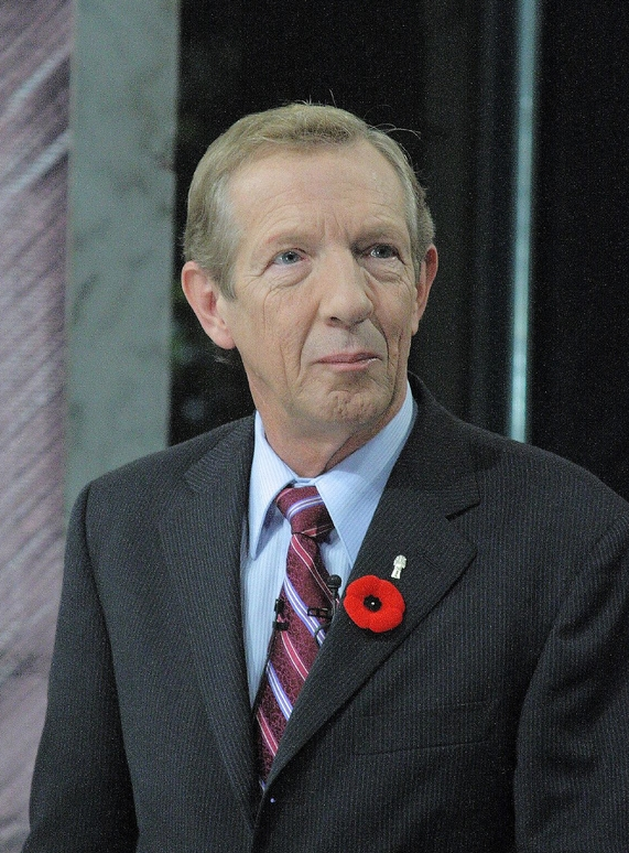 Lorne Calvert at the 2007 Leader's Debate